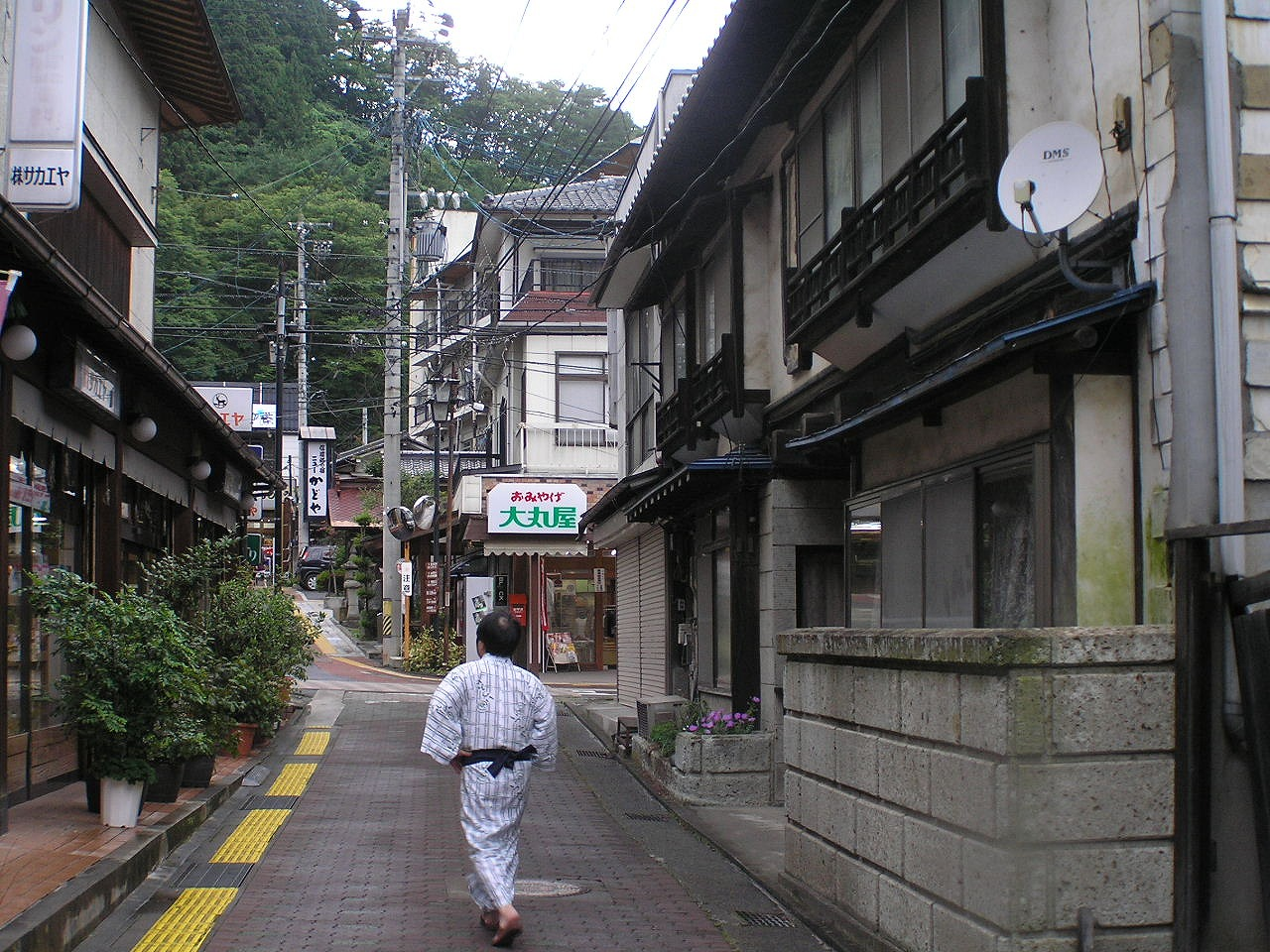 Kakeyu Onsen Spa